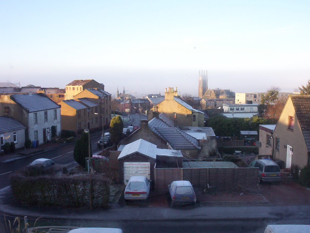 Bathgate, Scotland on Christmas 2005, with thick fog in the background.